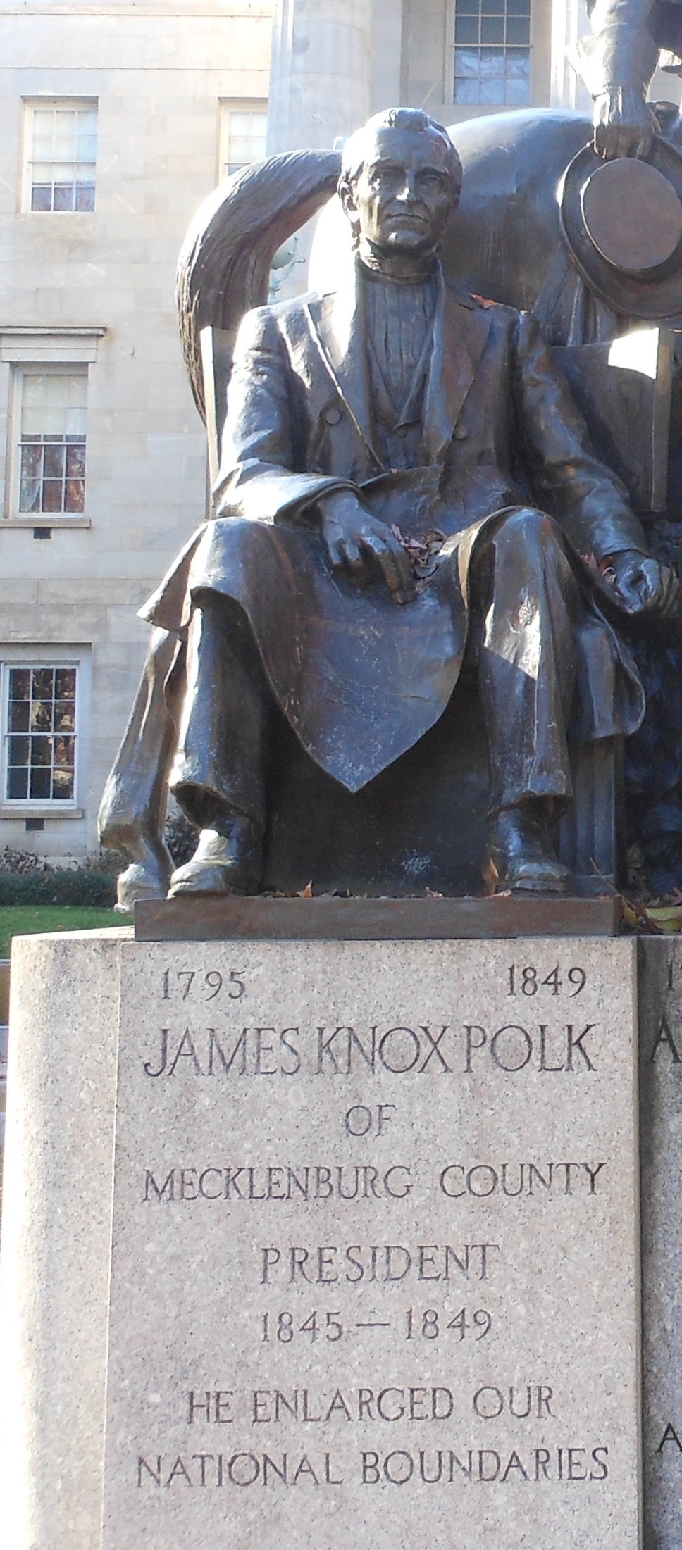 A state of James Knox Polk at the North Carolina State Capitol site in Raleigh, NC.